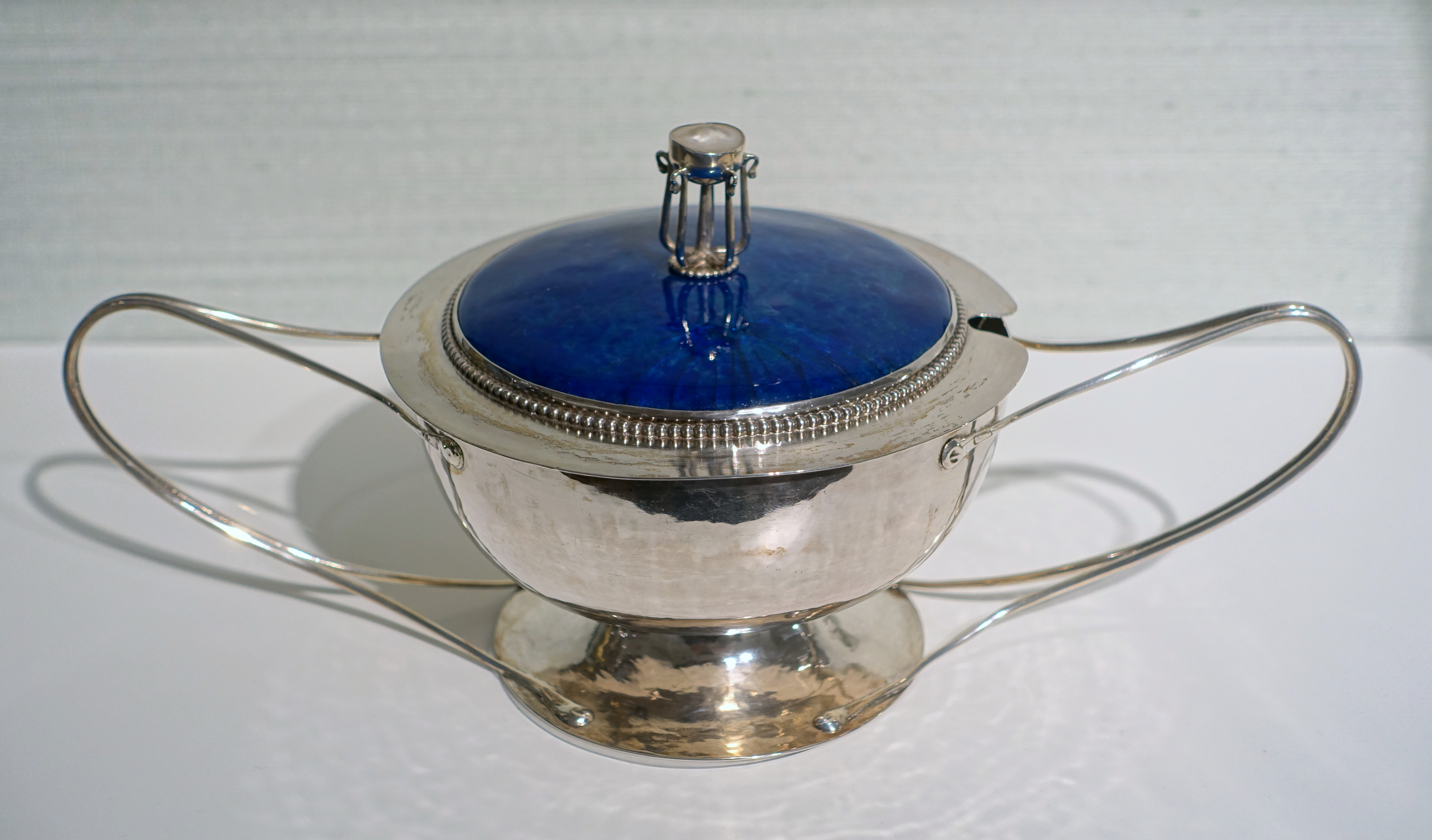 Exhibit in the Hessisches Landesmuseum Darmstadt - Darmstadt, Germany. As a utilitarian object, this exhibit is NOT subject to copyright laws. Instead it is subject to Industrial Design Rights; see Industrial Design Right for more information. If this object was ever covered by a design patent, that patent has long since expired, and thus this image is in the public domain.